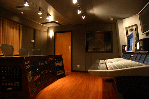 A Picture of the 995 Studio at PatchWerk Recording Studios in Atlanta, GA.